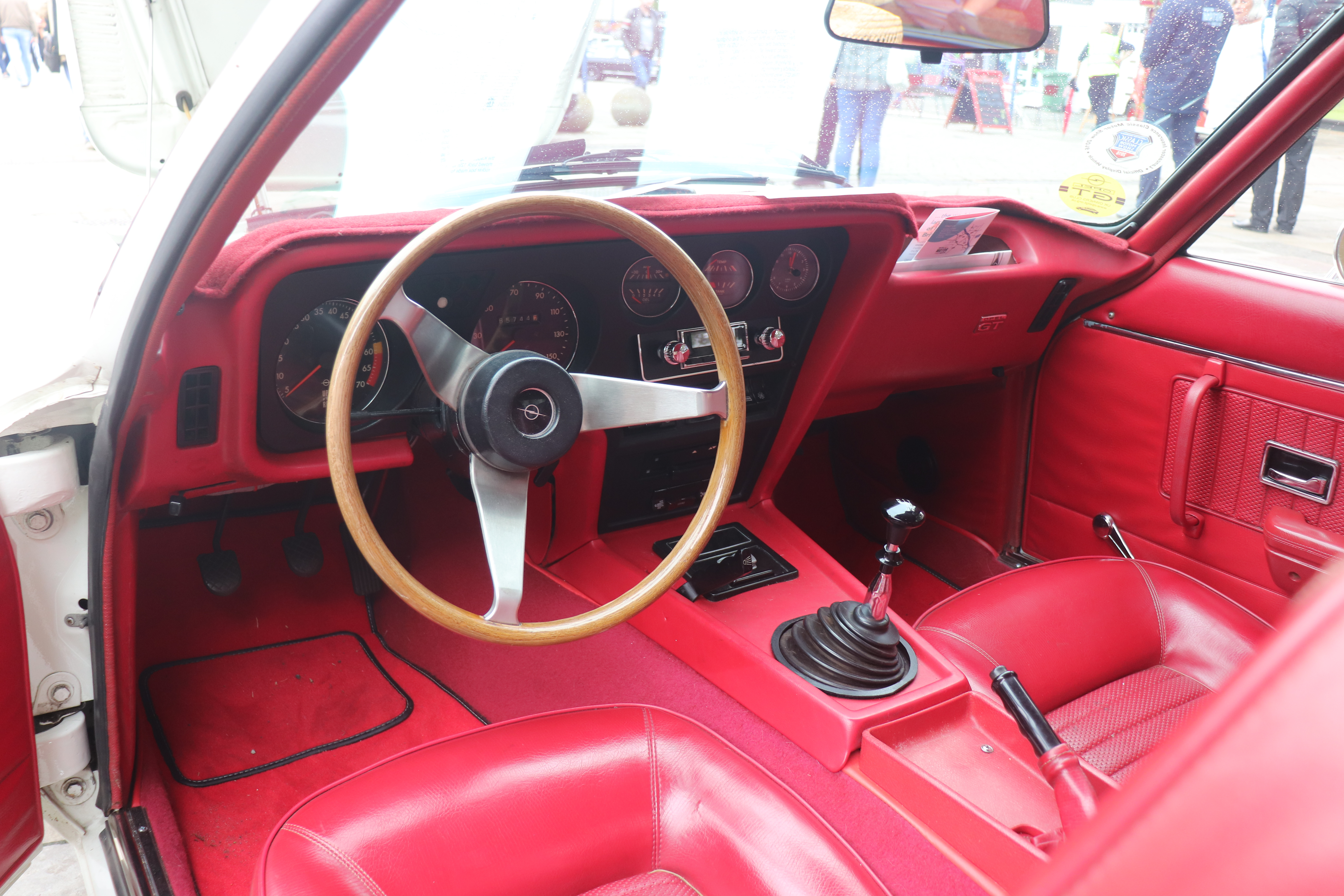 1969 Opel GT A-L 1900 Interior Taken at the 2018 Warwick Classic Car Show